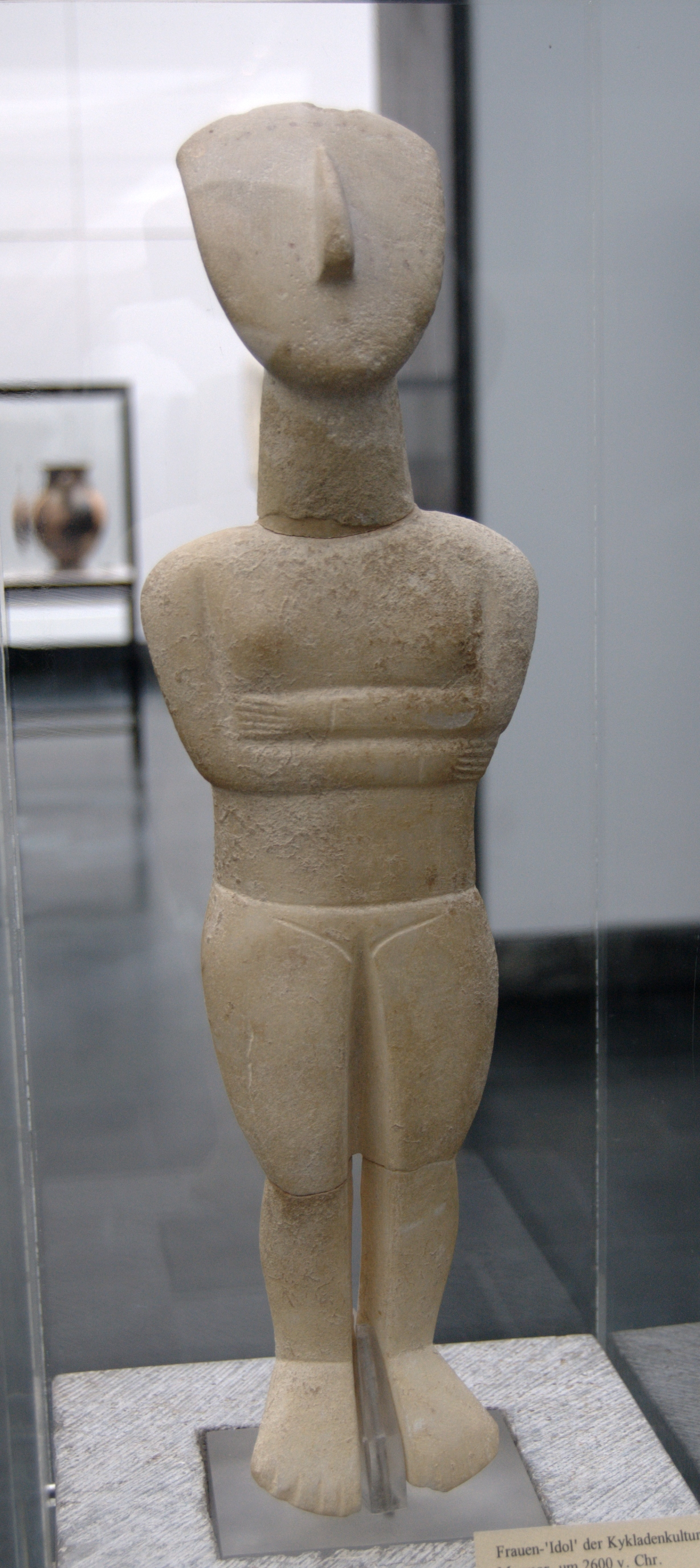 Cycladic female idol, marble, ca. 2600 BC.